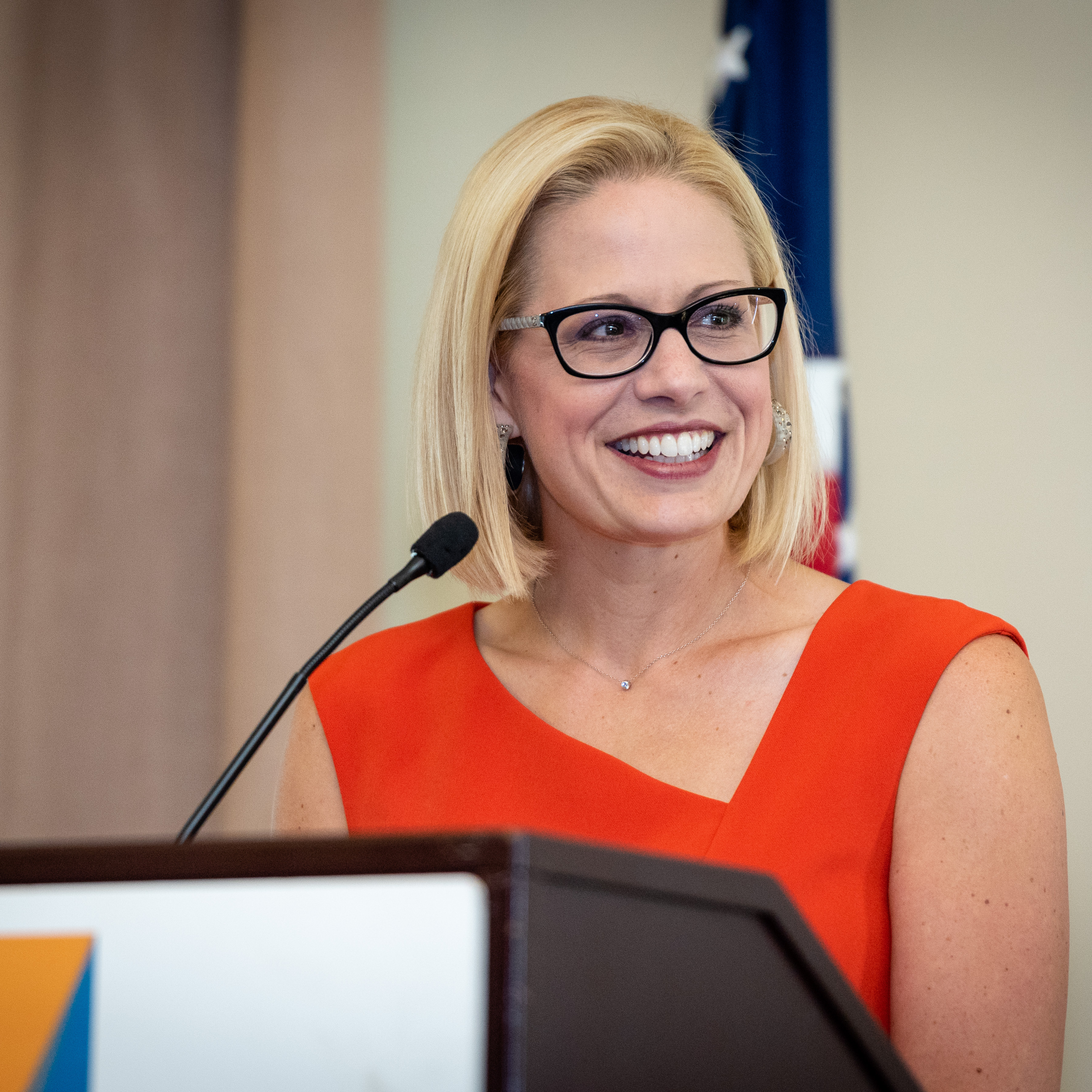 Kyrsten Sinema official photo 2018